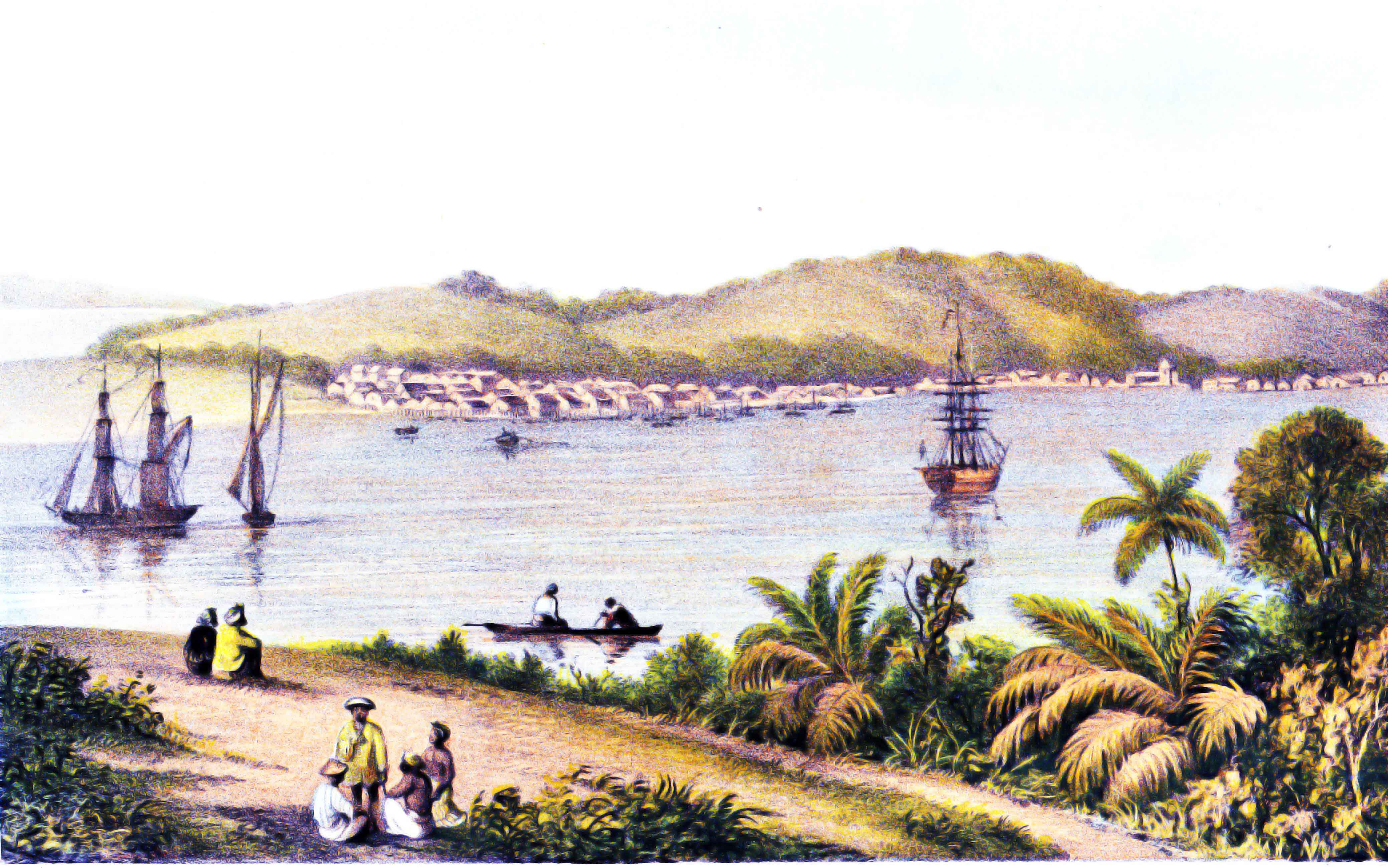 Riouw